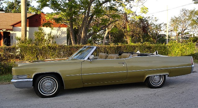 1970 Cadillac Coupe DeVille